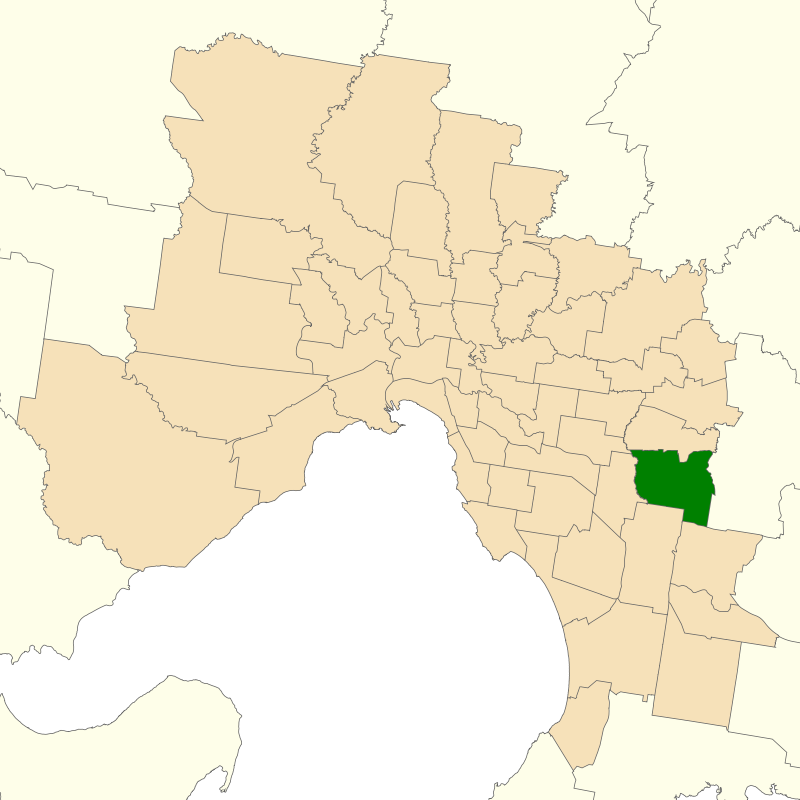 Location of the Victorian electoral district of Rowville (dark green) in the Greater Melbourne area.